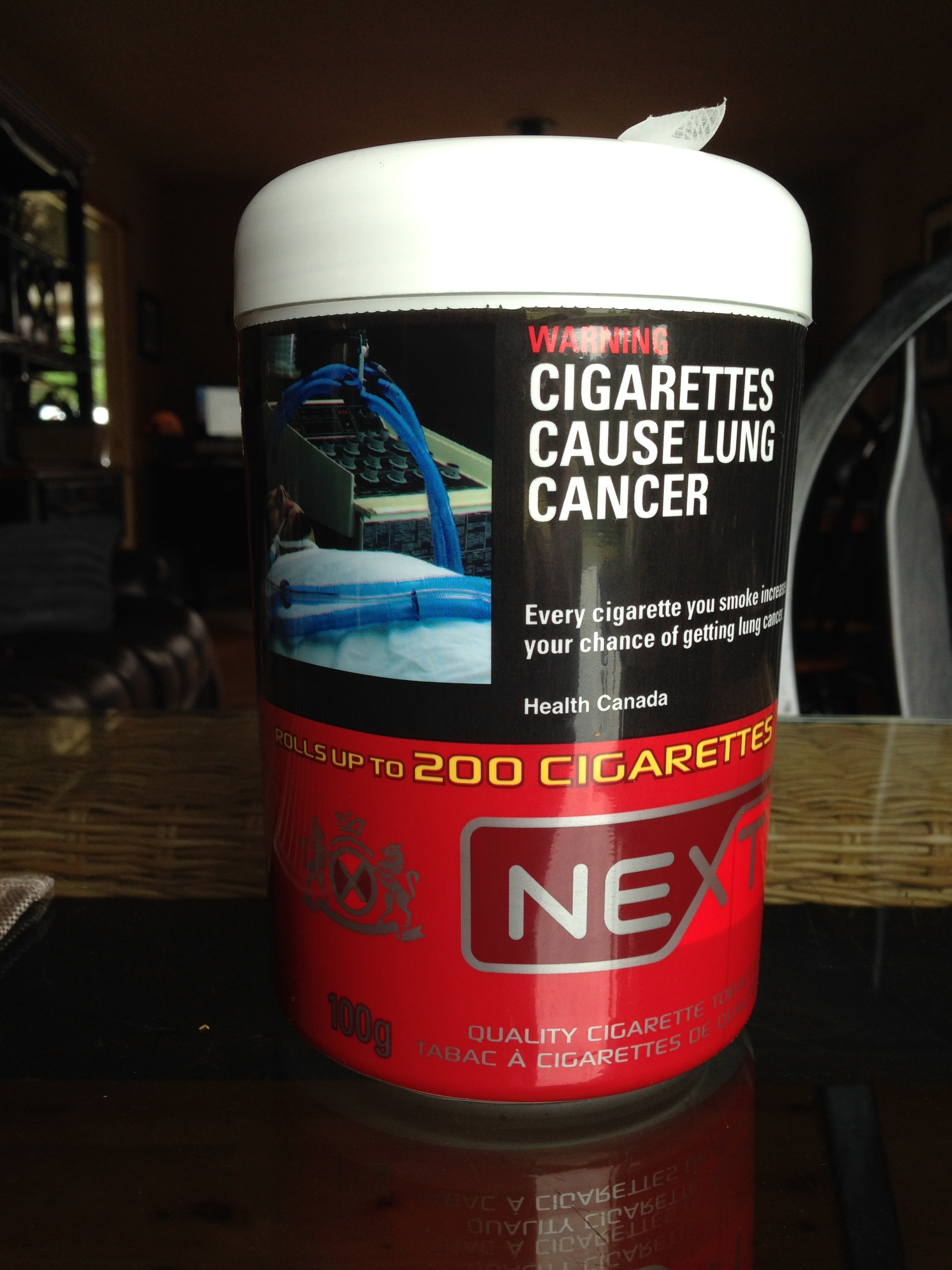 This is a photograph of a 100 gram can of Next cigarette tobacco, purchased at a gas station in Nova Scotia, Canada.